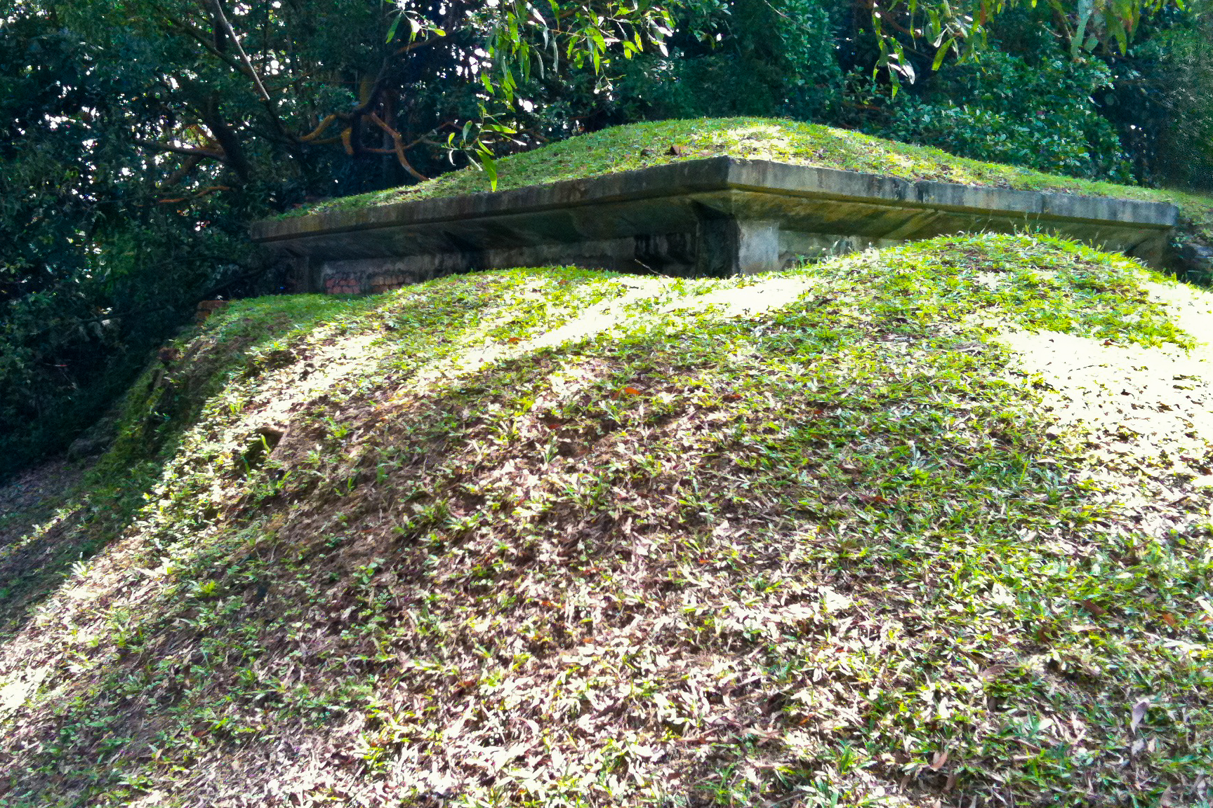 Used Bunker in Singapore.